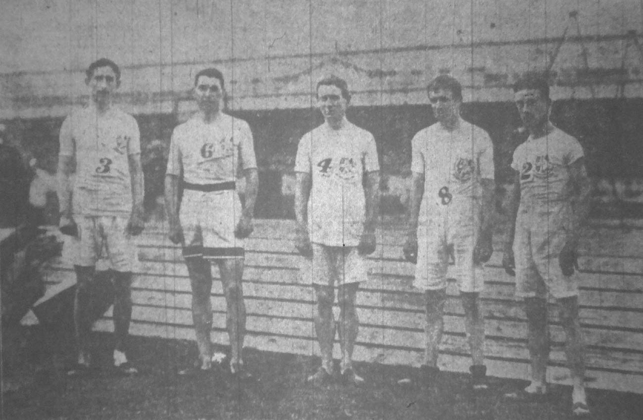 Britain’s five-man team for the final of the three-mile team race. From left to right, Archie Robertson, Norman Hallows, Joe Deakin, William Coales and Harold Wilson